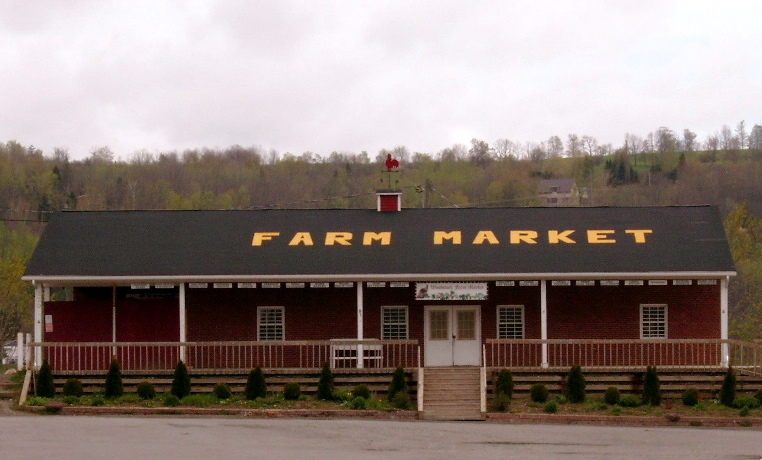 Farm Market in Woodstock, New Brunswick, Canada